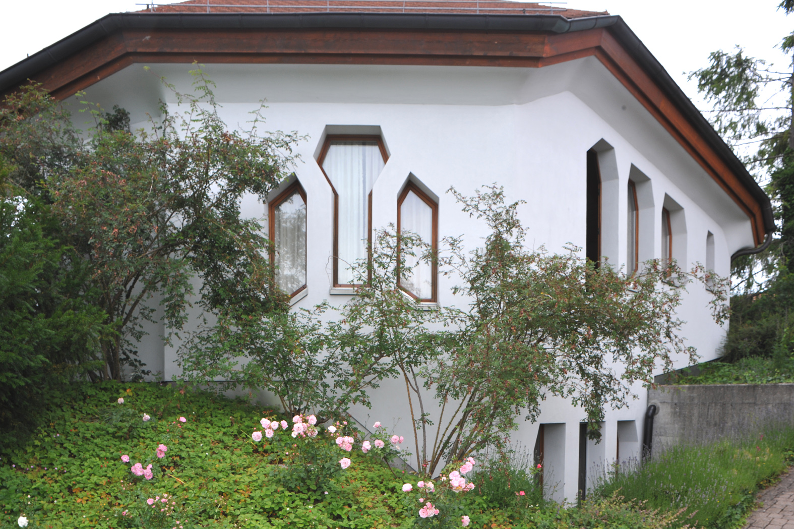 Ruettihubelbad near Worb, Eurythmy hall; Berne, Switzerland.